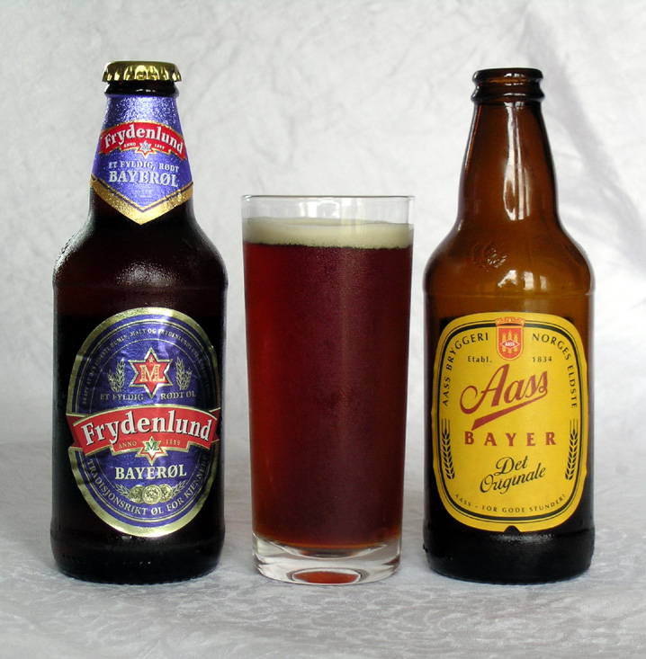 Norwegian «bayerøl».